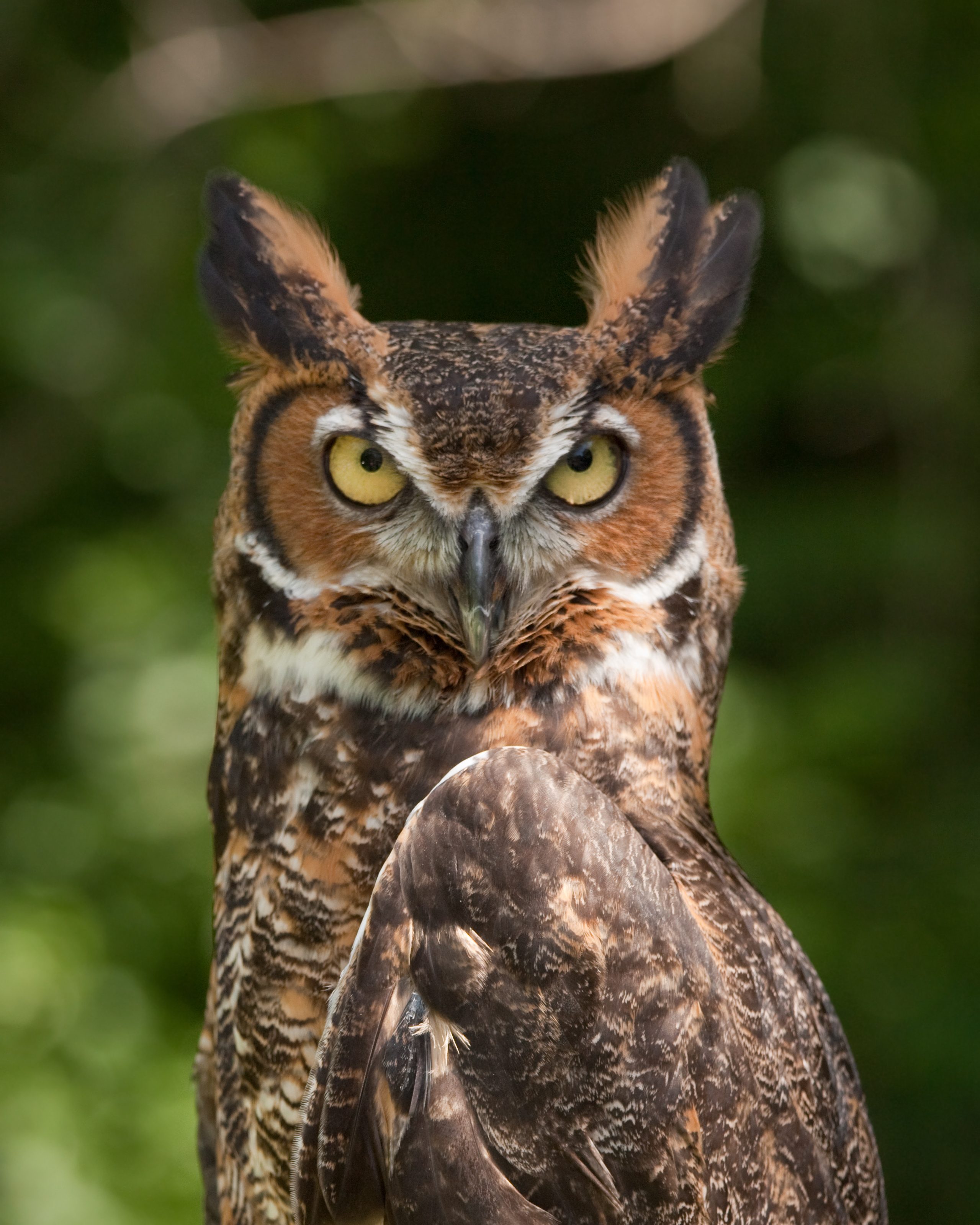 Great Horned Owl Bubo virginianus. Near Cincinnati, Oh.